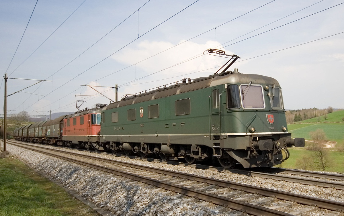 Re 10/10 i.E. Re 6/6 MUed with an Re 4/4 II with a steel coil train on the northern Bözberg ramp.